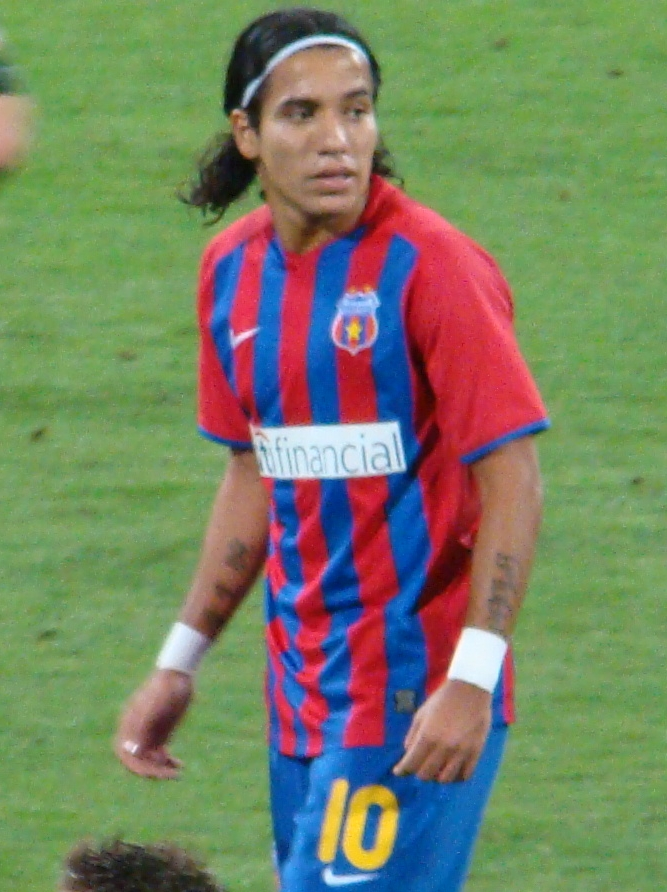 Dayro Moreno